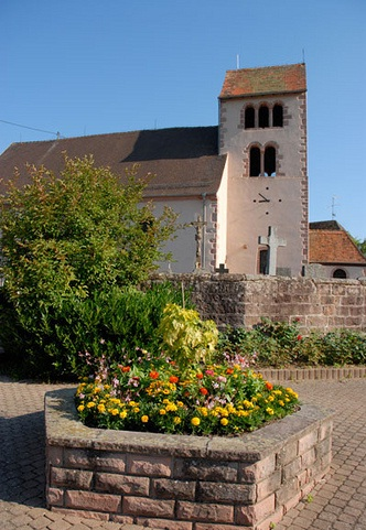 Neuve-Eglise church